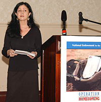 Judith Ortiz Cofer led an Operation Homecoming workshop at MacDill Air Force Base in Tampa, Florida.